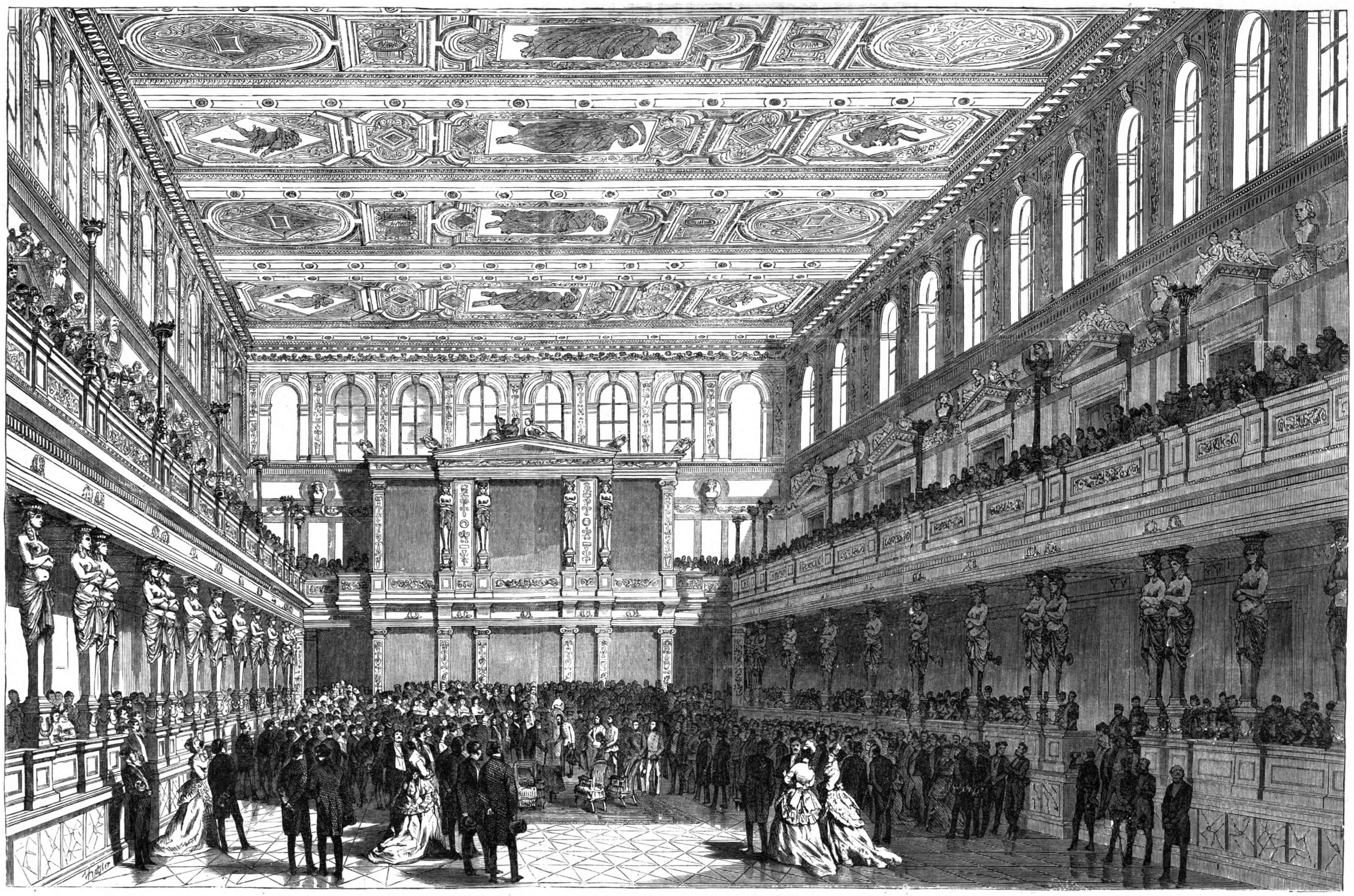 Ceremony for the placement of the keystone in the Wiener Musikverein on March 1, 1870 Xylography after the drawing by Vinzenz Katzler.